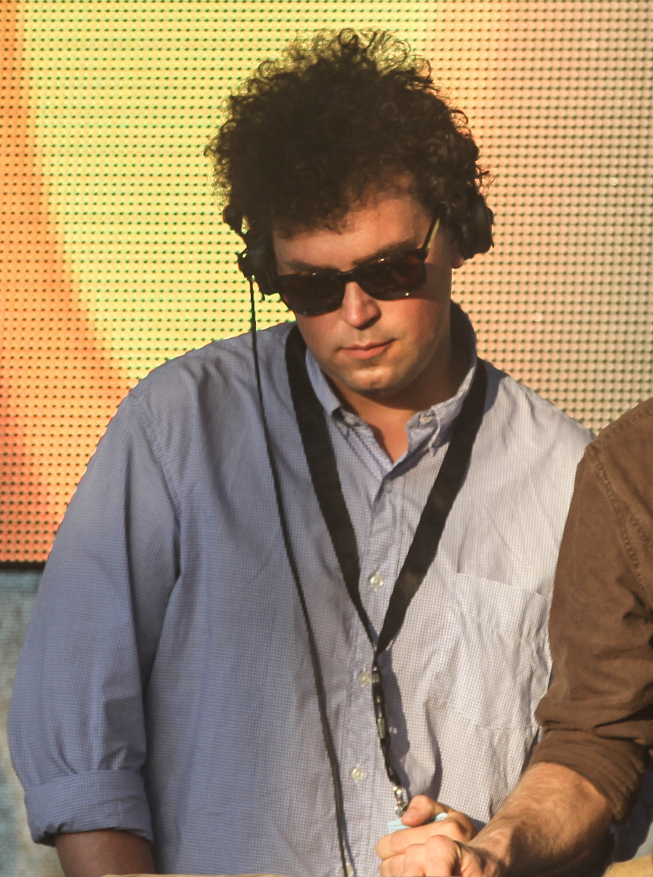 Simian Mobile Disco performing at Melt! Festival 2013